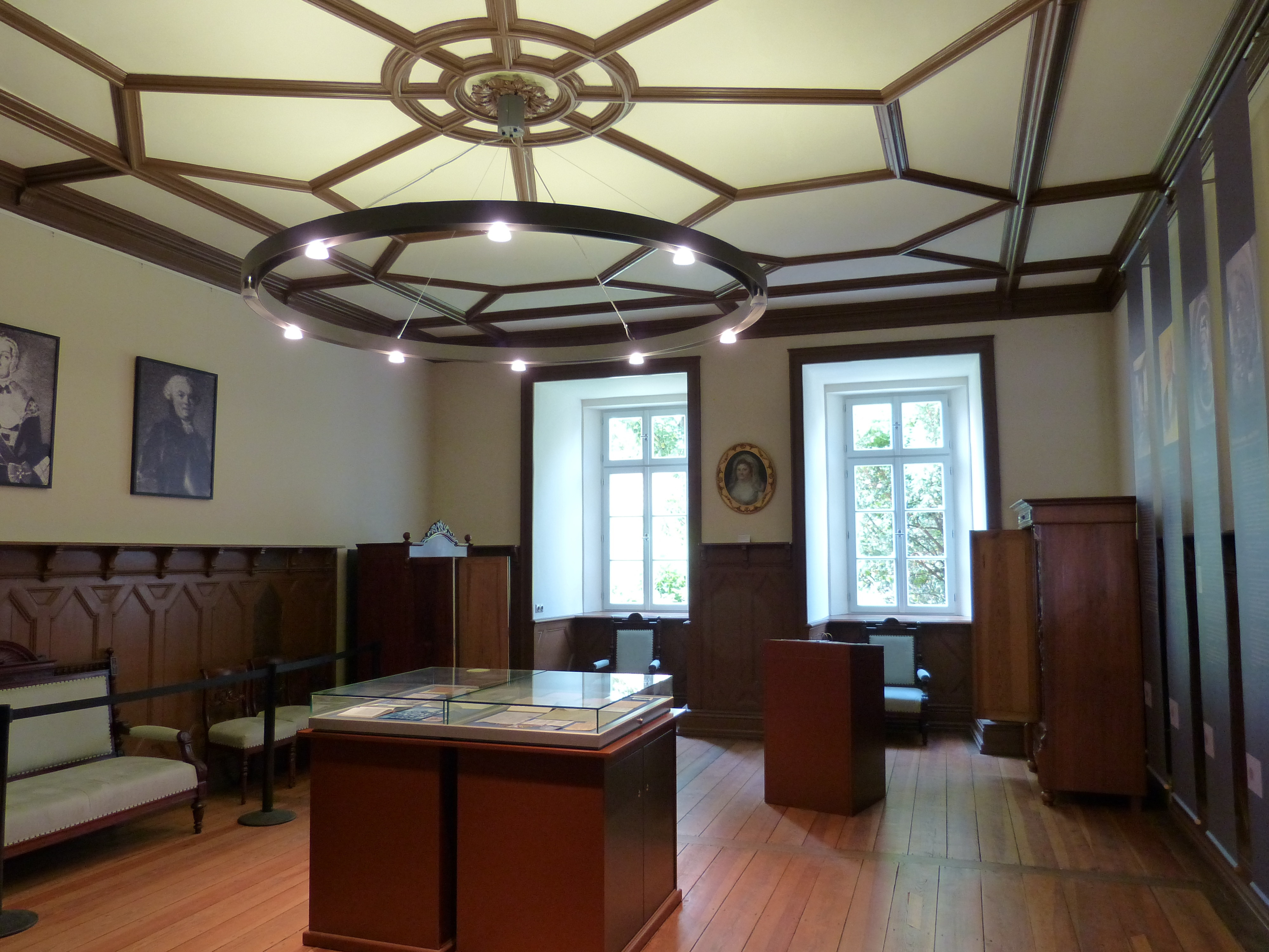 Dobbertin ( Mecklenburg ). Monastery: Chapter house ( 1885 )